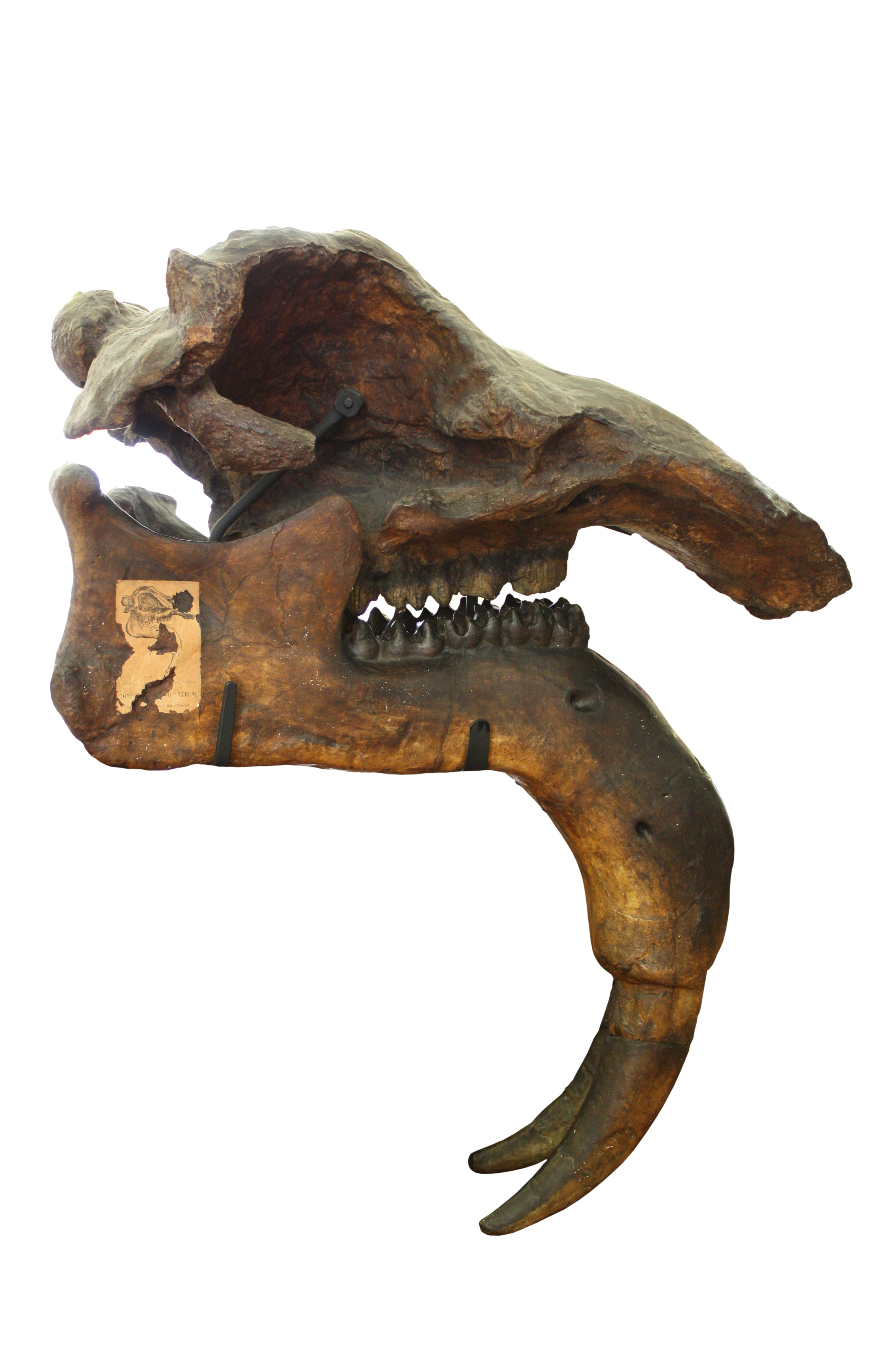 Replica skull of a Deinotherium in Sedgwick Museum of Earth Sciences, Cambridge. Plaster replica of a skull found in Darmstadt in 1835, purchased by Adam Sedgwick for the geological museum of the University of Cambridge.